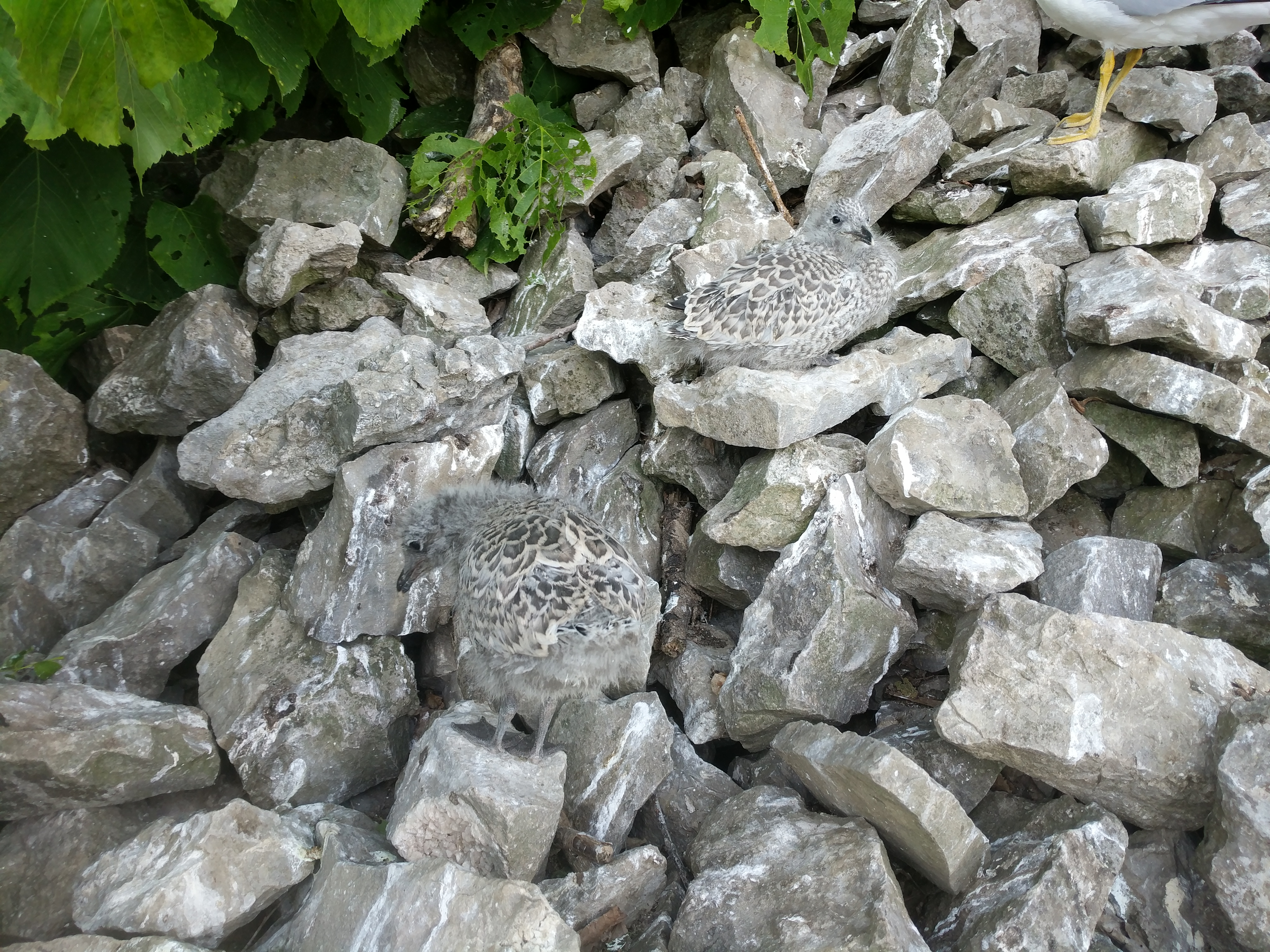 Two Ring-billed Gull chicks sitting amongst rocks. Taken at Niagara Falls, New York, USA